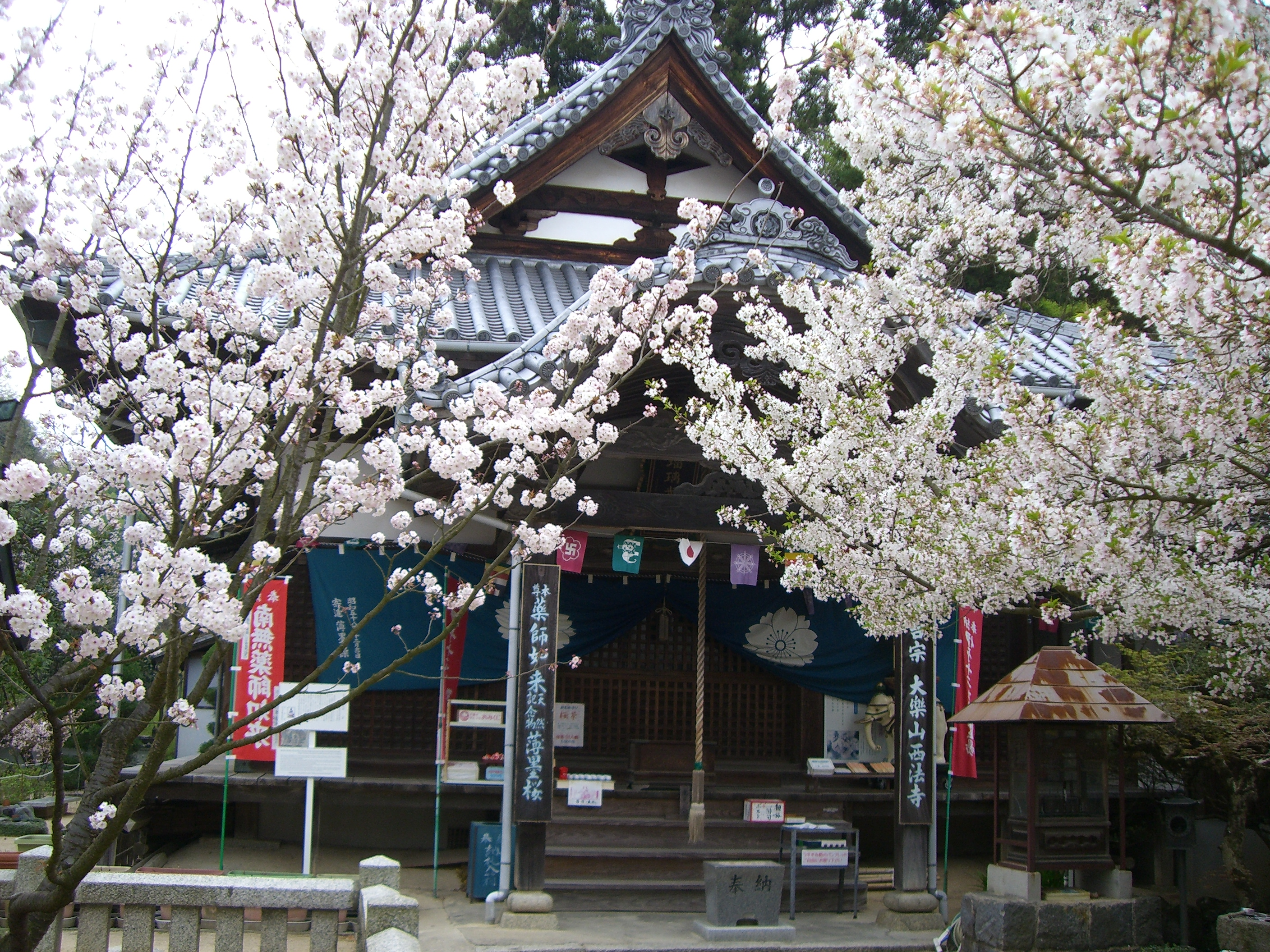 "The Cherry blossoms of sumi (Indian ink)" in Saiho-ji Temple is famous from old times.(Ehime, JAPAN)